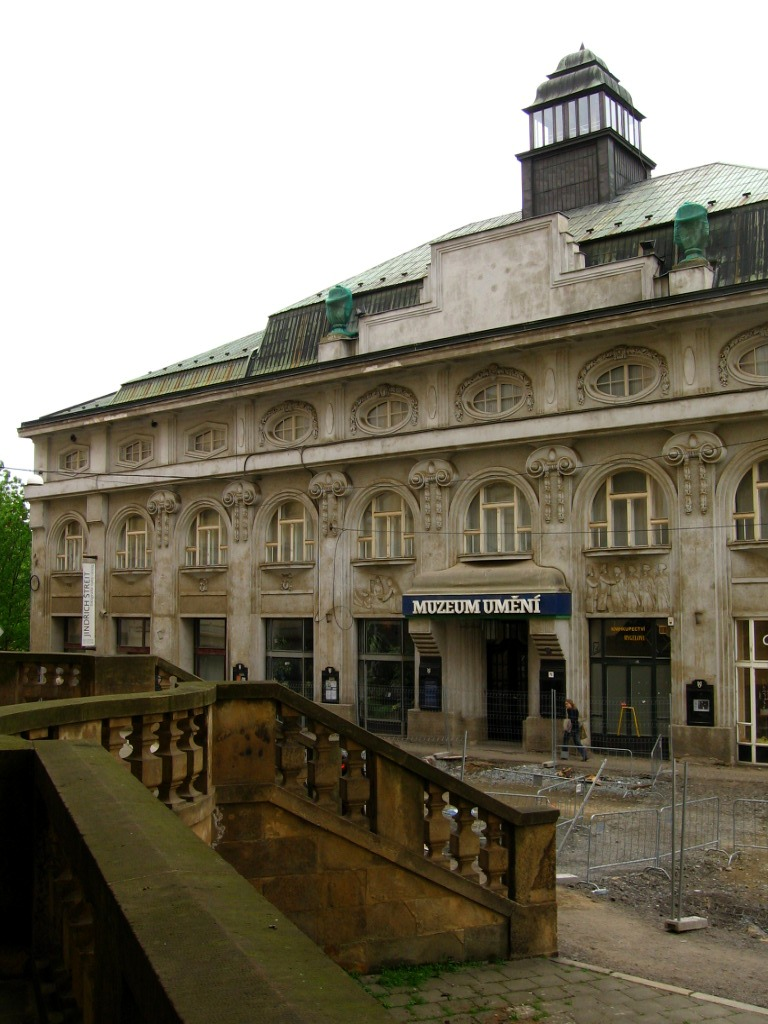 The Museum of Modern Art in Olomouc, the Czech Republic.